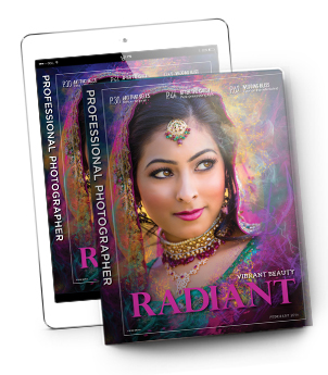 PPmag